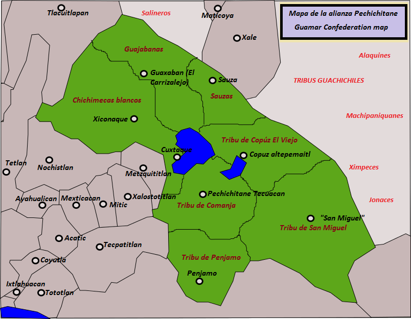 Map of the guamar confederation (Pechichitane).